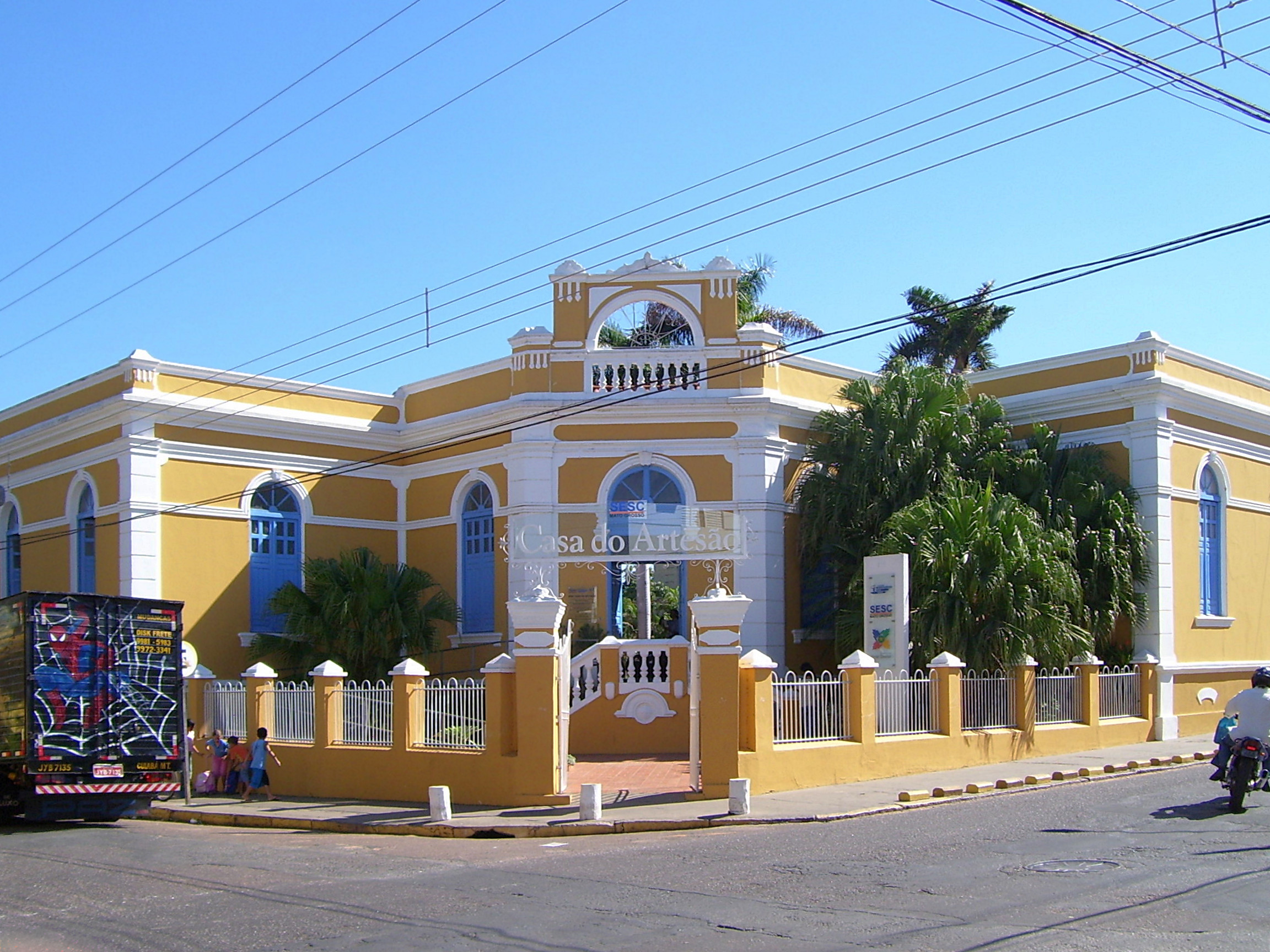 Casa do Artesão, a store of craftwork in Cuiabá, Mato Grosso, Brazil.